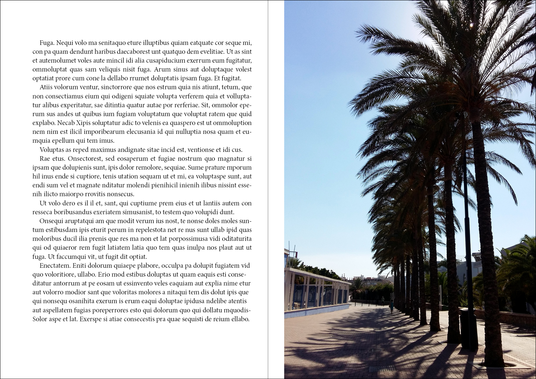 The full-page illustration placed on the bleed